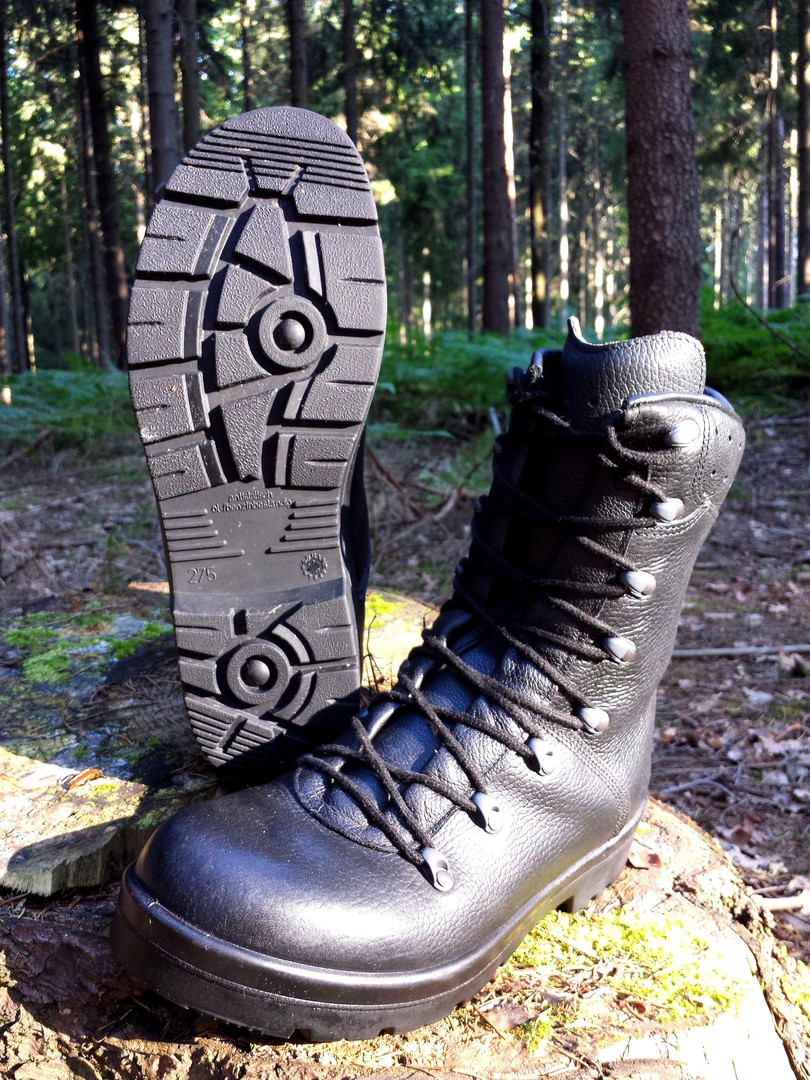 Modern standard Bundeswehr combat boots M 2007.